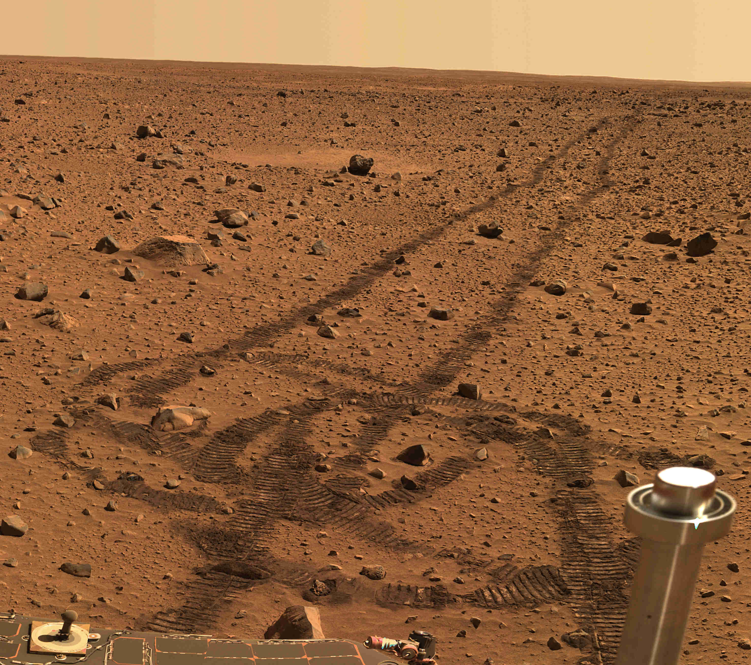 cropped version of the image 'Santa Anita' Panorama from the JPL MER website: "acquired from a position roughly three-fourths the way between "Bonneville Crater" and the base of the "Columbia Hills." "